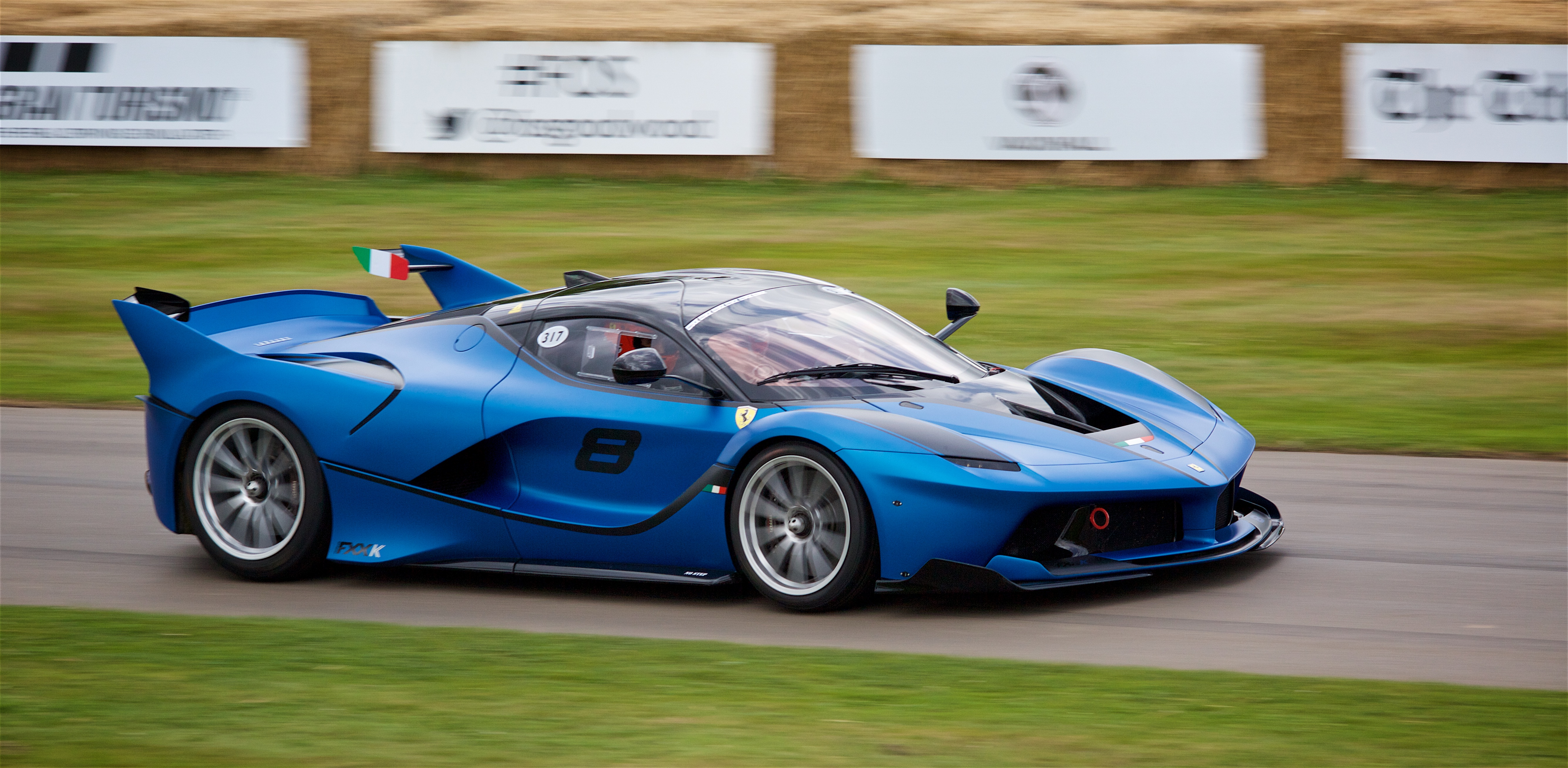 2017-06-30 - Goodwood Festival Of Speed - Ferrari FXX-K chassis #218329, labeled #8.[1]